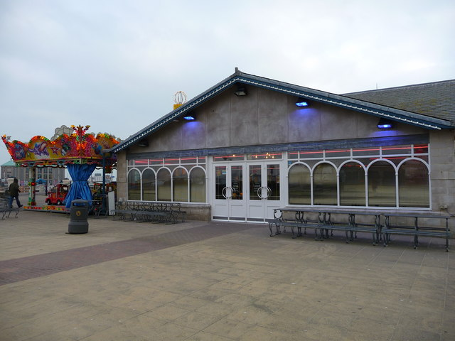 Weymouth - The Electric Palace The Electric Palace amusement arcade replaced the small theatre on this site that burned down in 1993.